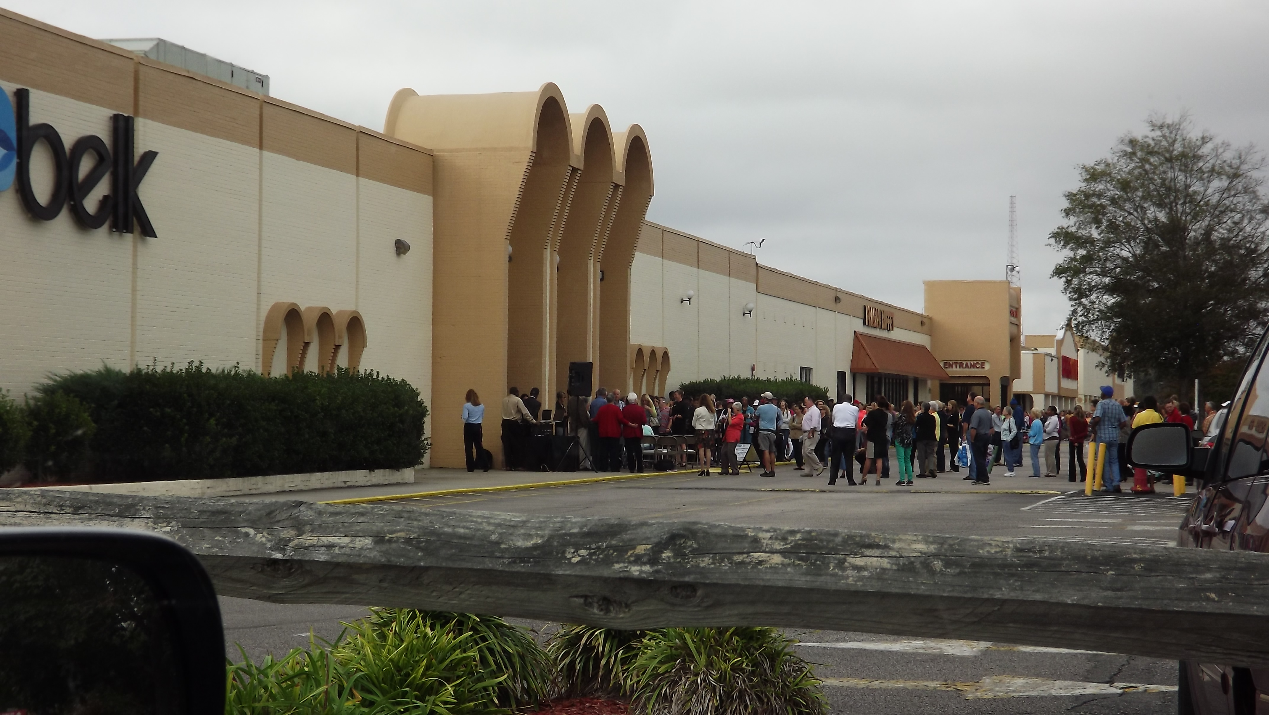 Elizabeth City Belk after first extensive renovation since 1988, which radically rearranged its interior configuration, but did not affect the exterior, leaving the Southgate store as the last of the three small-mall prototypes to retain its original exterior appearance (albeit painted-over the original beige brick veneer, of which is still visible on the store's mall entrance facade.)